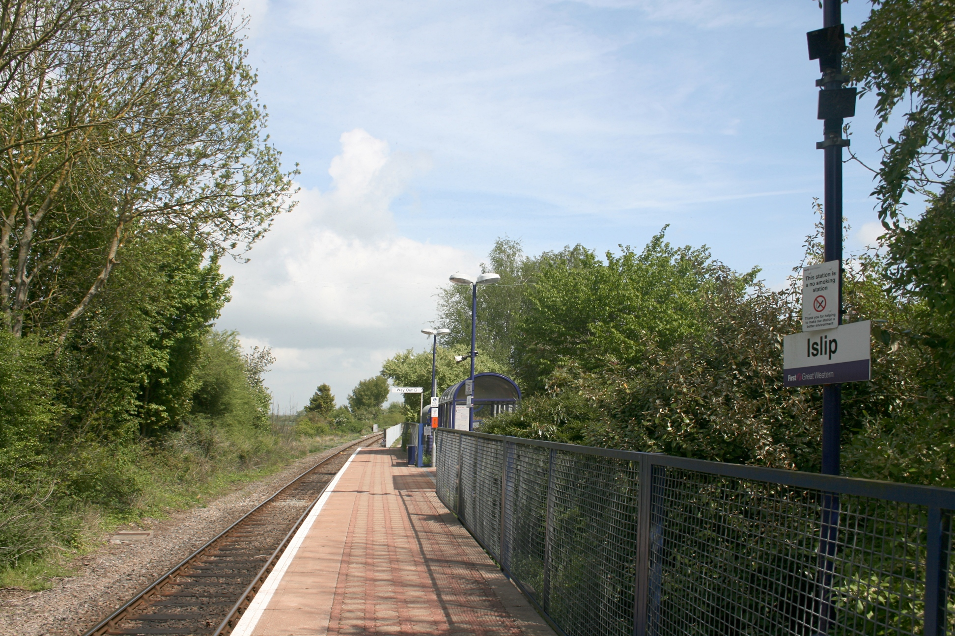 Islip railway station, facing north towards Bicester.